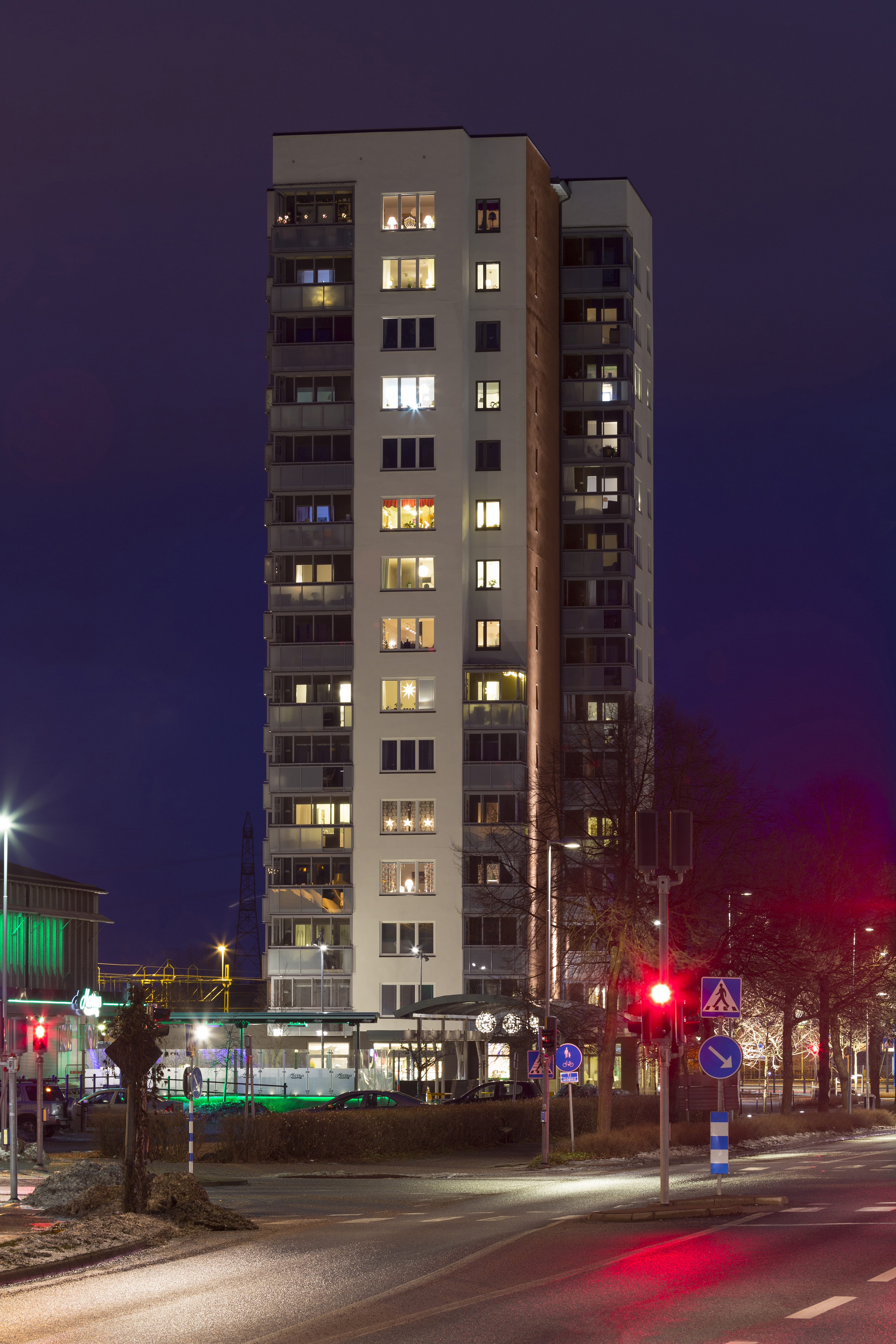 Residential high rise in Märsta North of Stockholm, Sweden